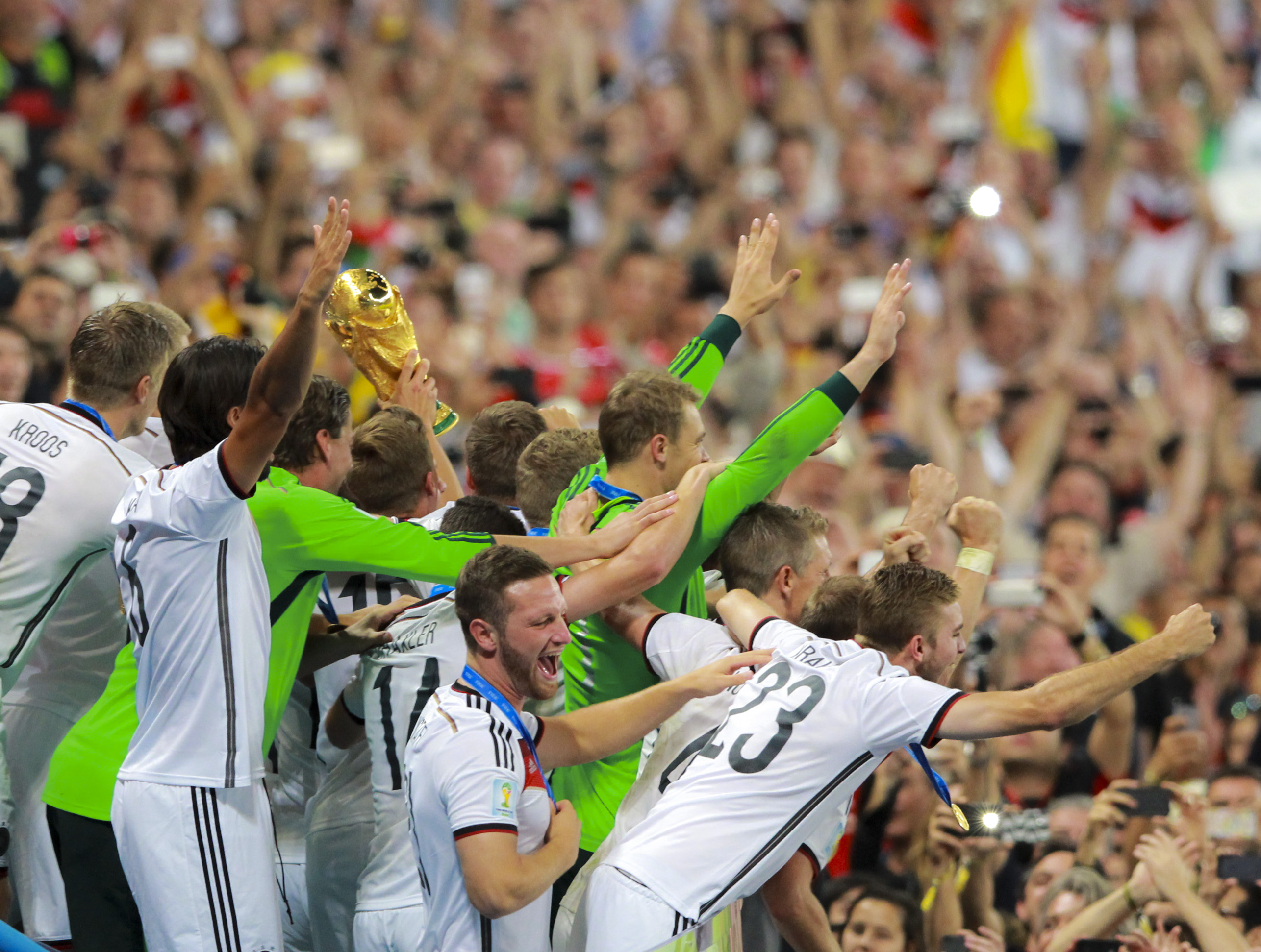 The final match of World Cup 2014 between Germany and Argentina 2014-07-13